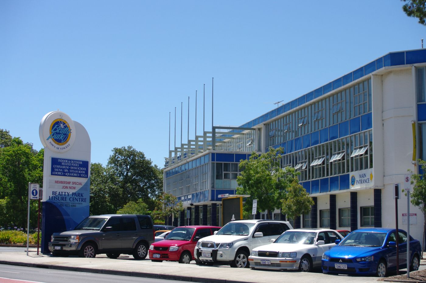 Outside of Beatty Park